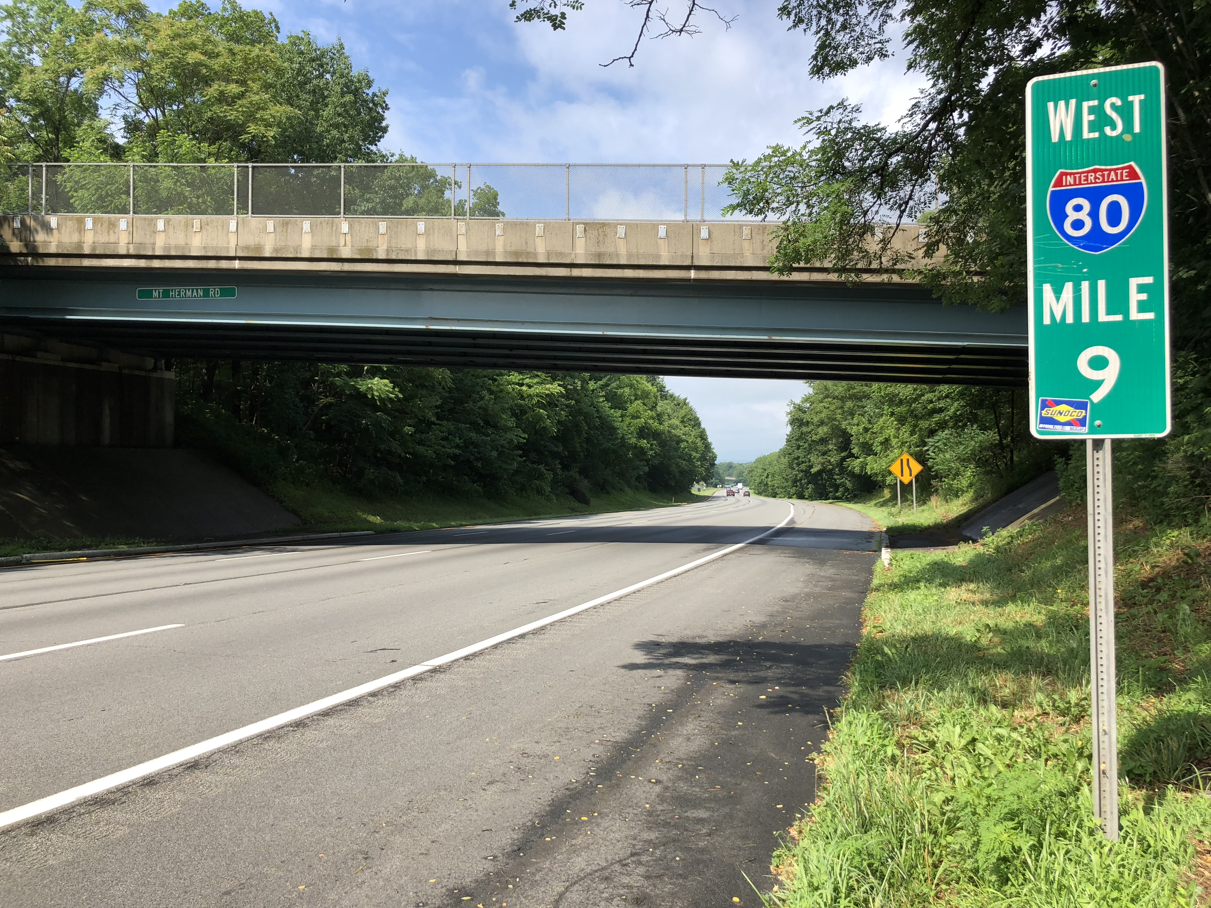 View west along Interstate 80 between Exit 12 and Exit 4 in Blairstown Township, Warren County, New Jersey